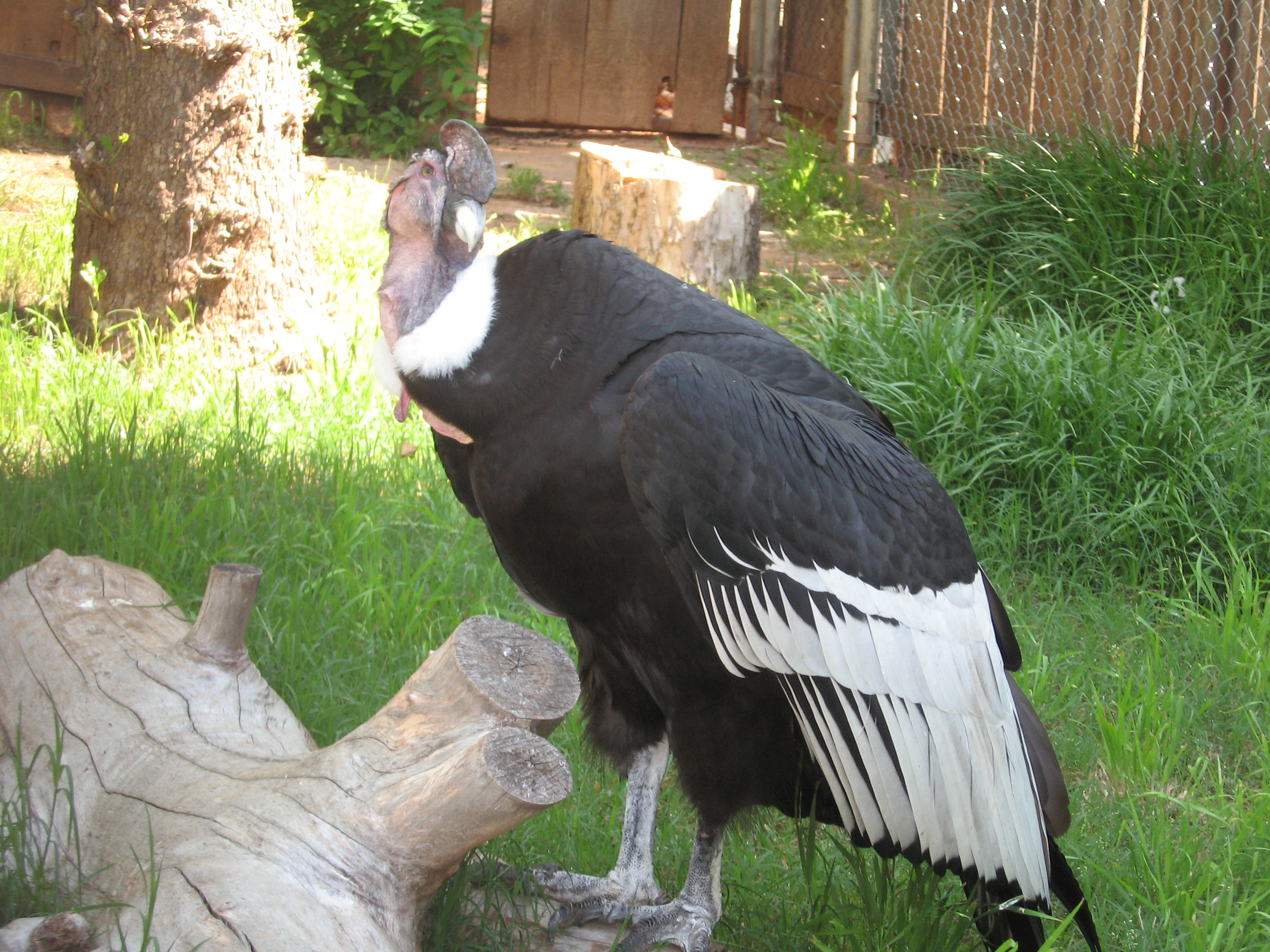 An Andean Condor at the OKC Zoo